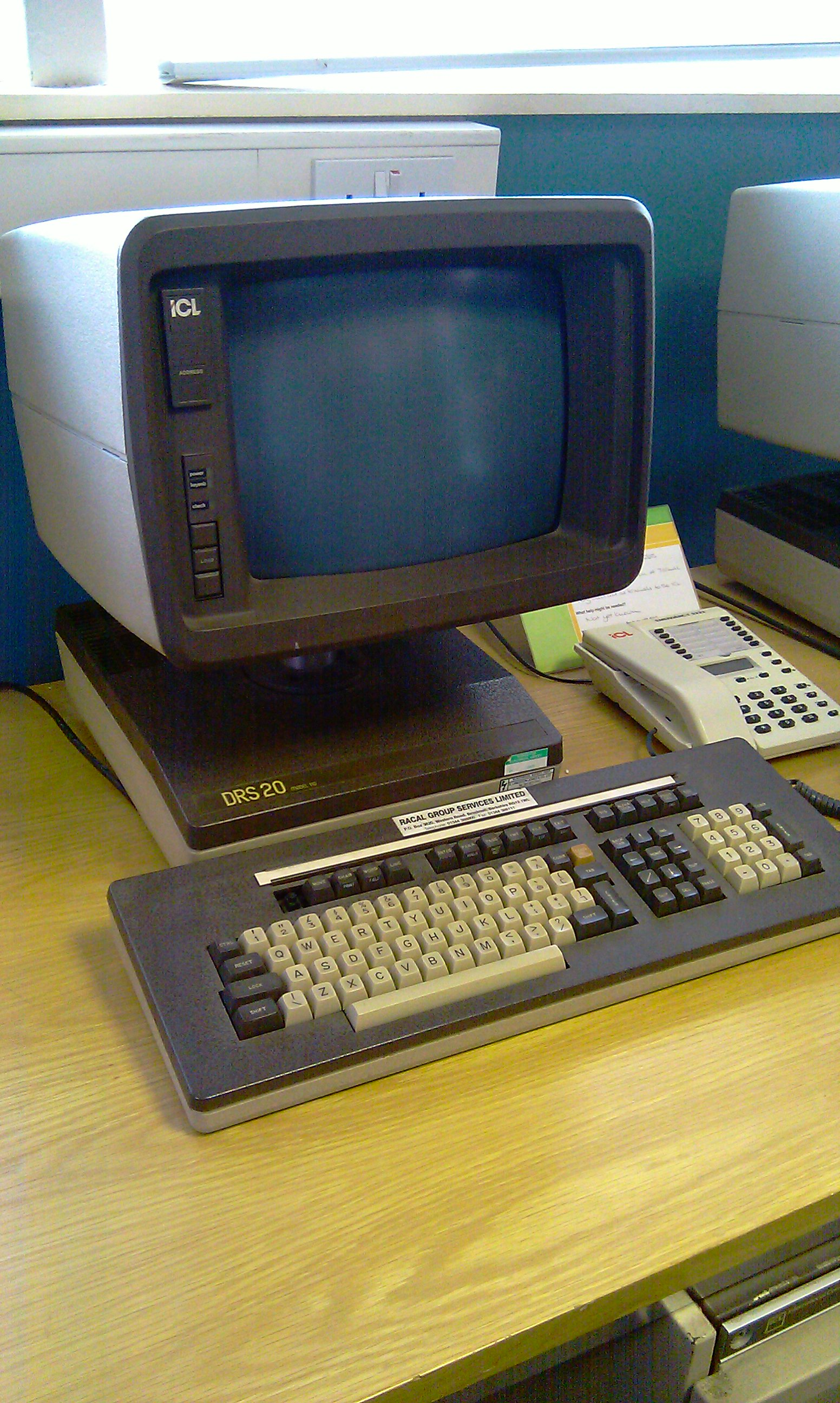 The ICL DRS20 Computer terminal, as on display at Bletchley Park in the United Kingdom.